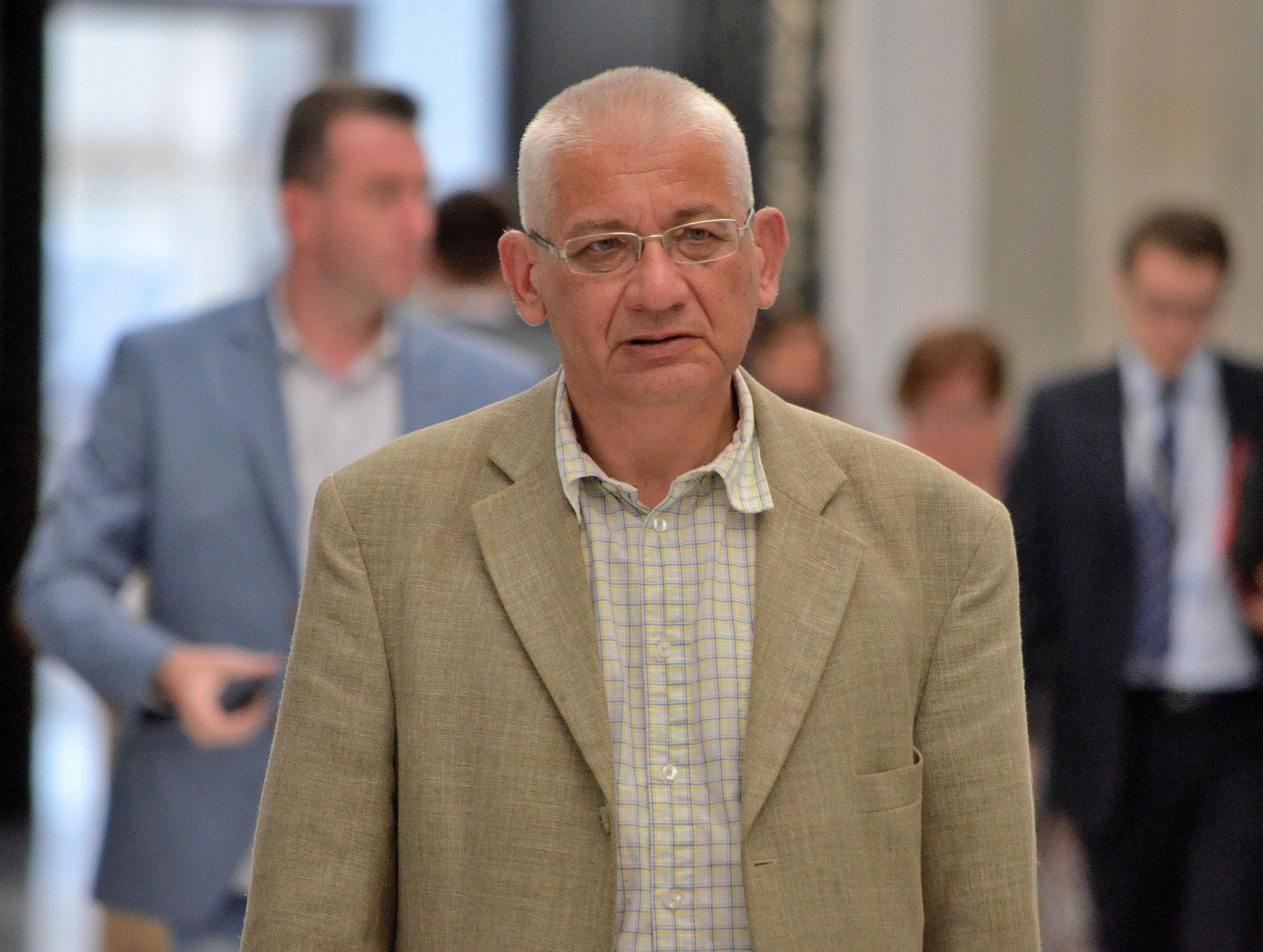 Deputy Ludwik Dorn in the Polish Sejm